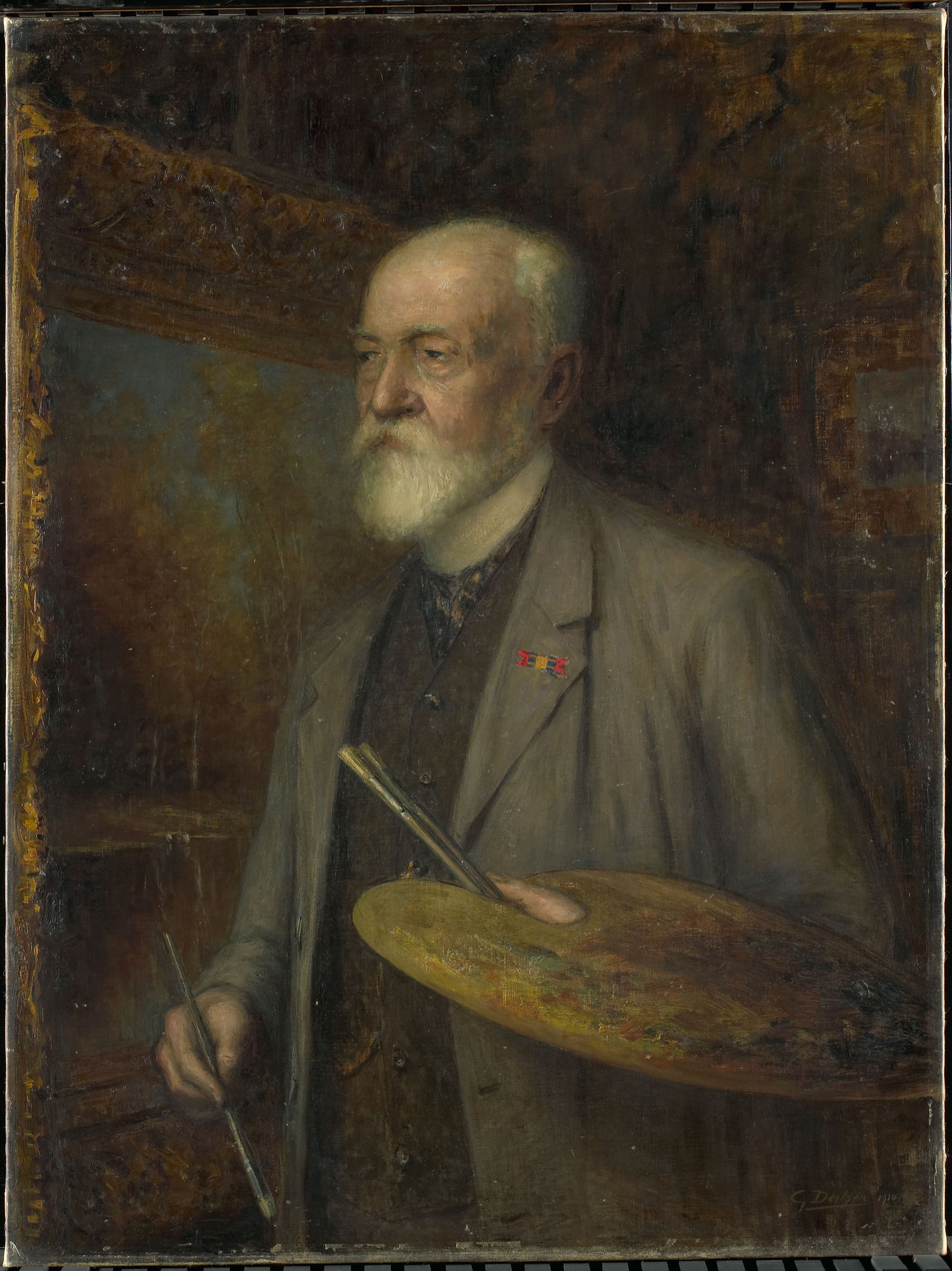 Johannes Gijsbert Vogel (1828-1915). Rijksmuseum Amsterdam